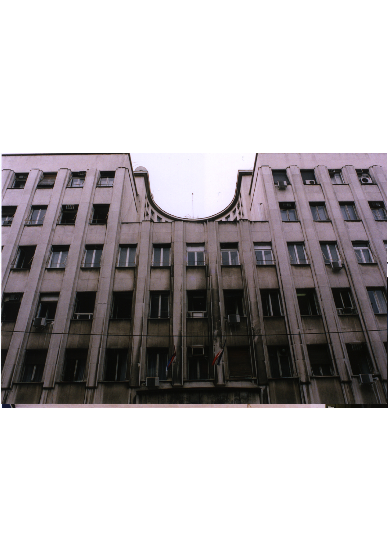 Modern Style Architecture in Belgrade, Obilicev Venac Street